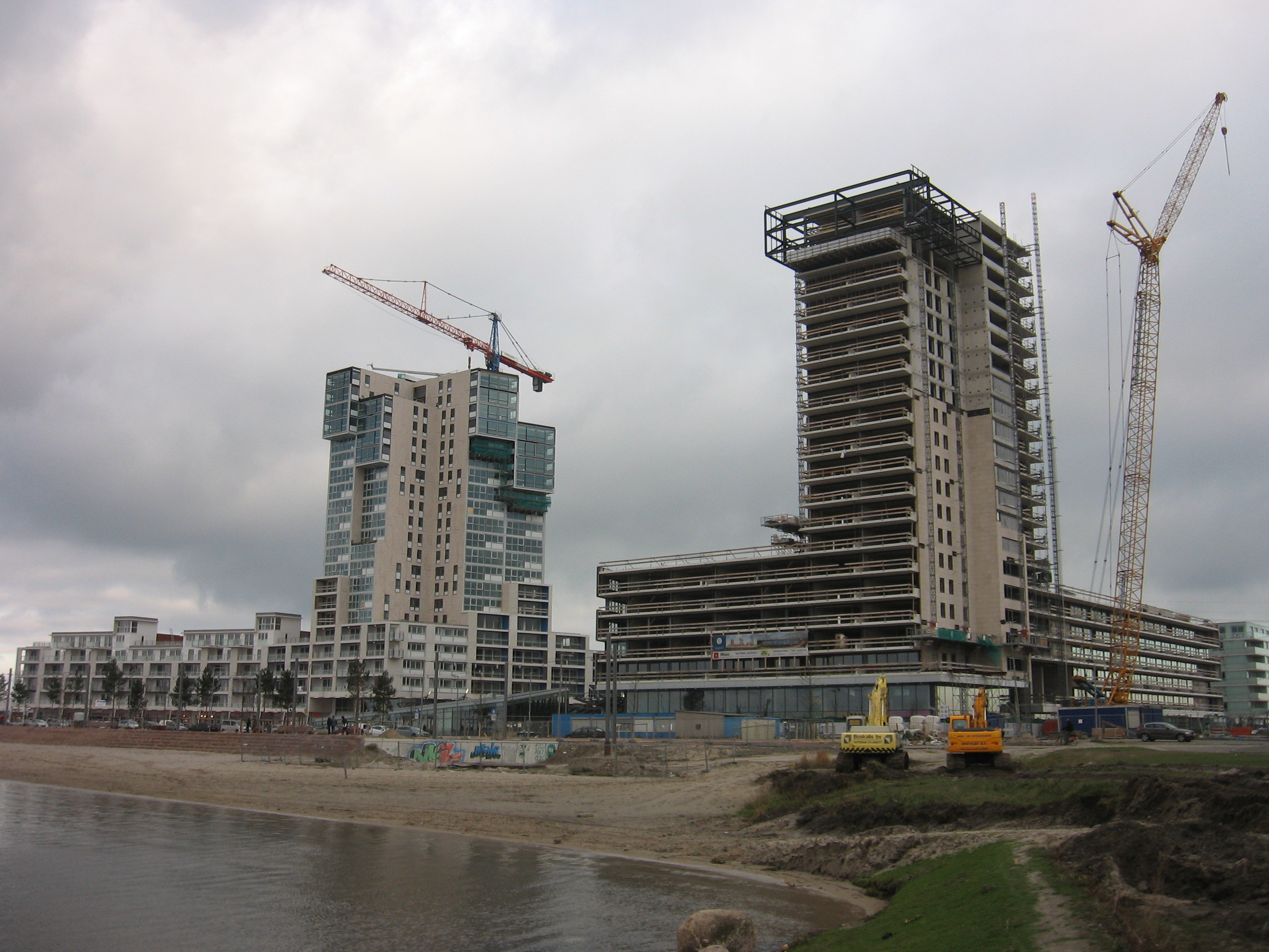 Newport Nesselande, Rotterdam, the Netherlands.